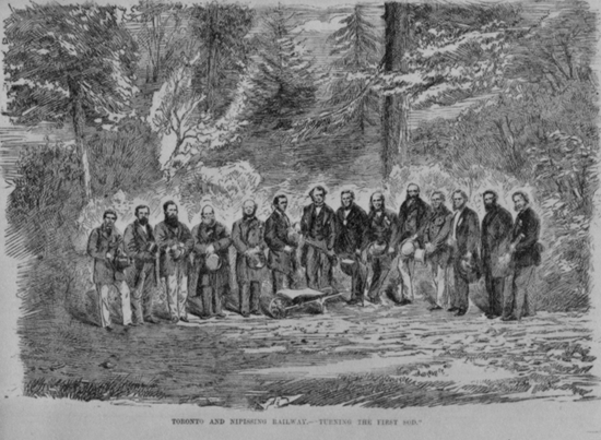 Contemporary image of "Turning the first sod" on the Toronto and Nipissing Railway. From a contemporary newspaper account.